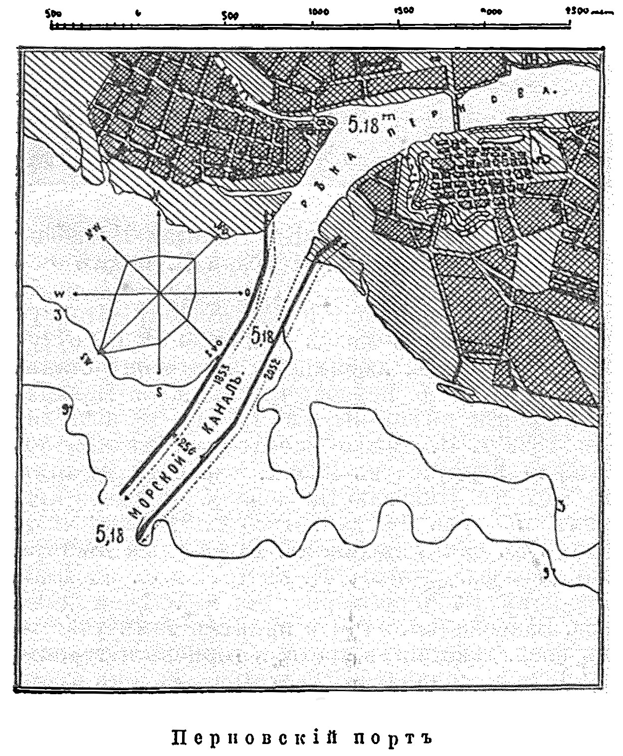 Old map of Pärnu